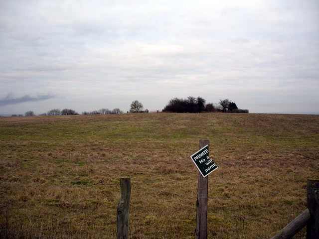 Woolbury Ring, Stockbridge Down. Whilst most of Stockbridge Down is National Trust land, Woolbury Ring, to the north west, is privately owned. The triangulation point (158m) can just be seen in the central enclosure.